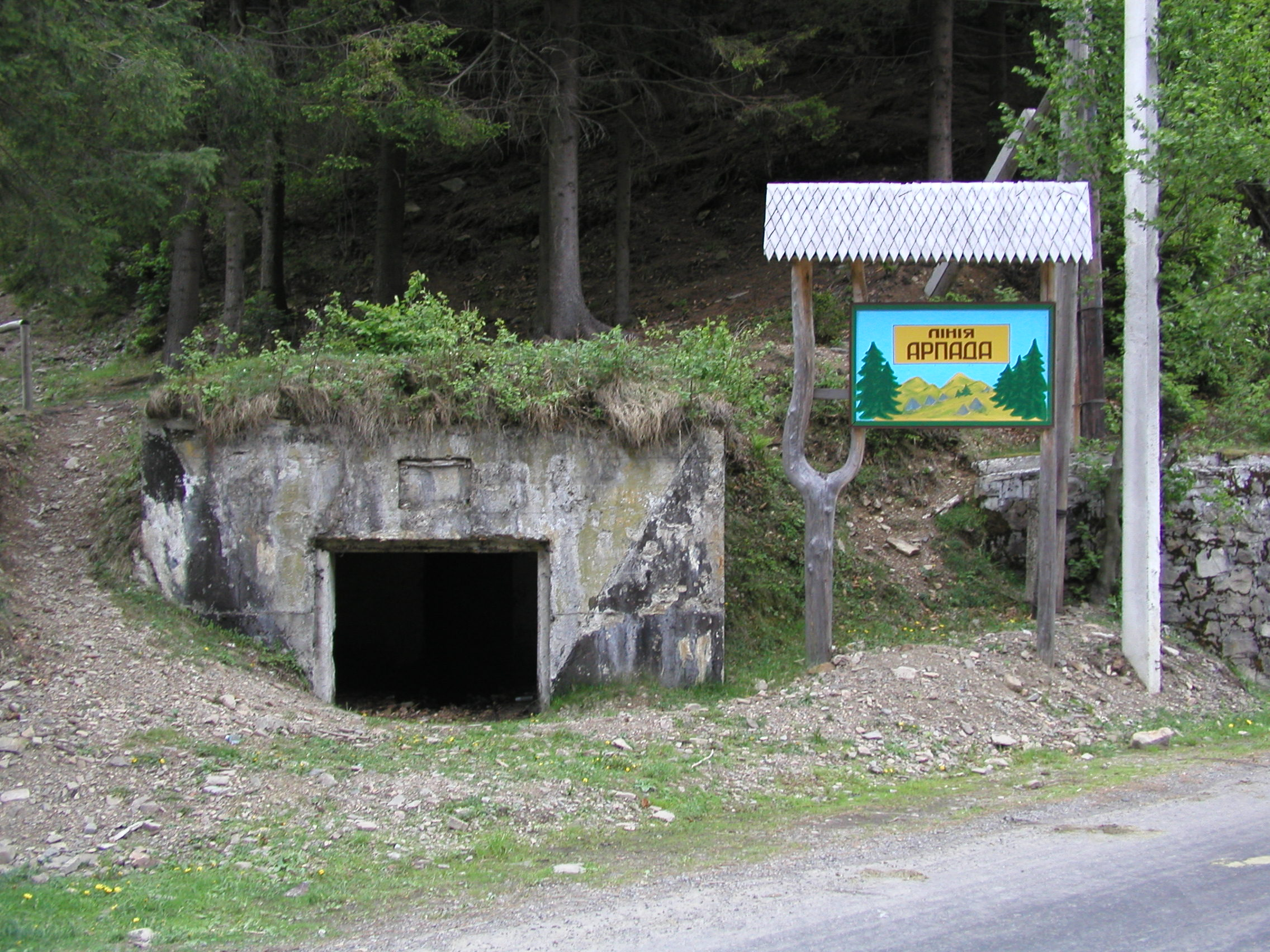 Pill-box of the Árpád Line near Synevir village (Transcarpathian oblast, Ukraine)